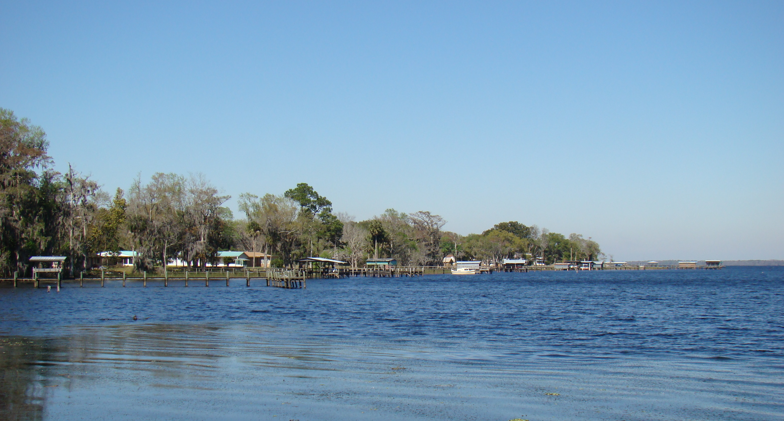 Lake Crescent is freshwater lake located near Crescent City, Florida. Crescent City is known as the Bass Capital of the World.